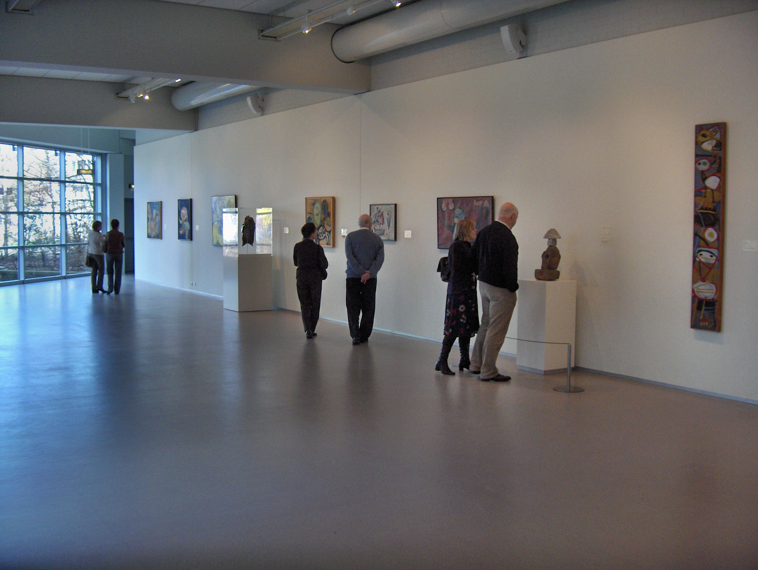 View inside the Cobra Museum voor Moderne Kunst, Amstelveen, the Netherlands